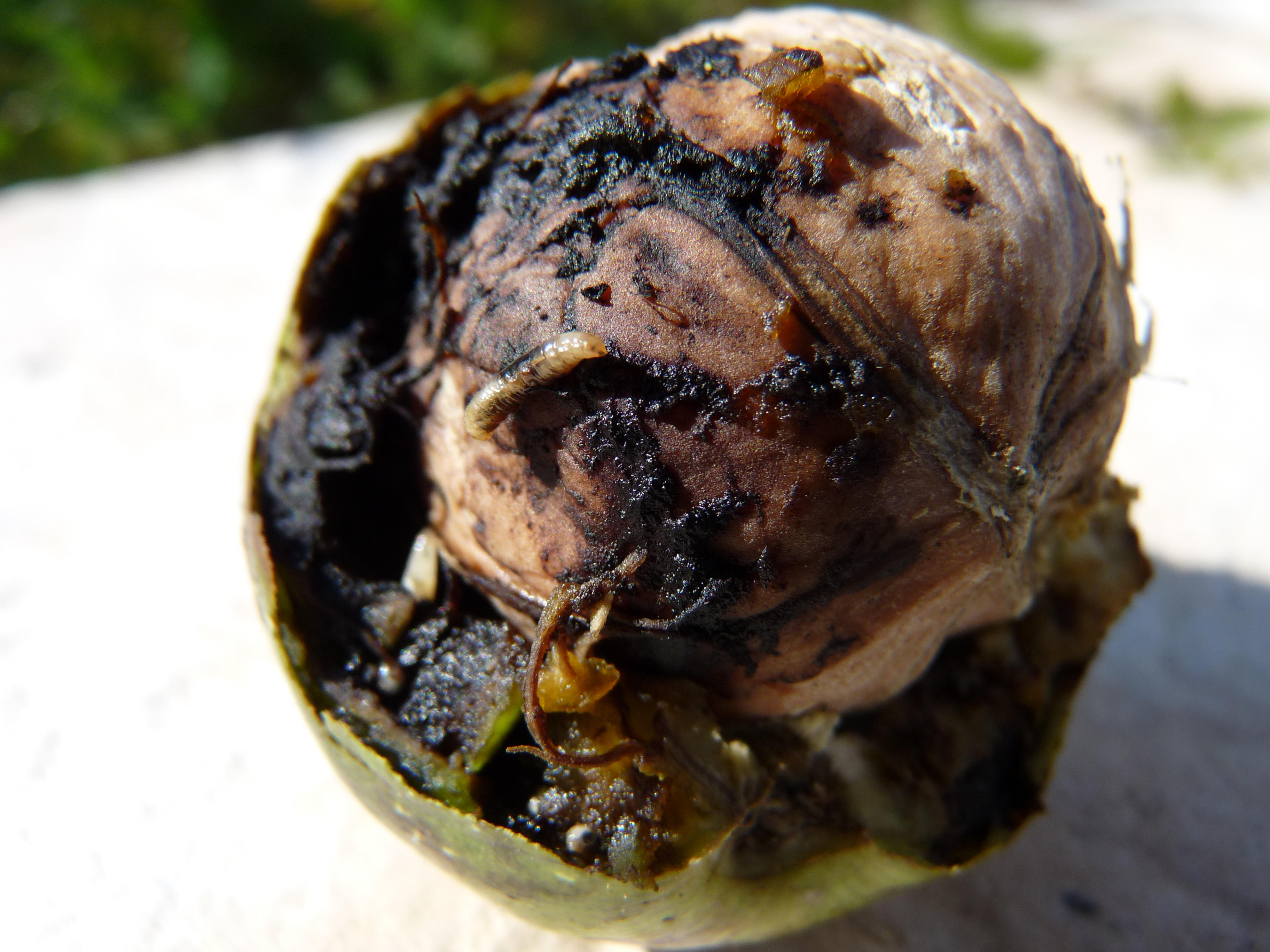 Rhagoletis completa on a walnut